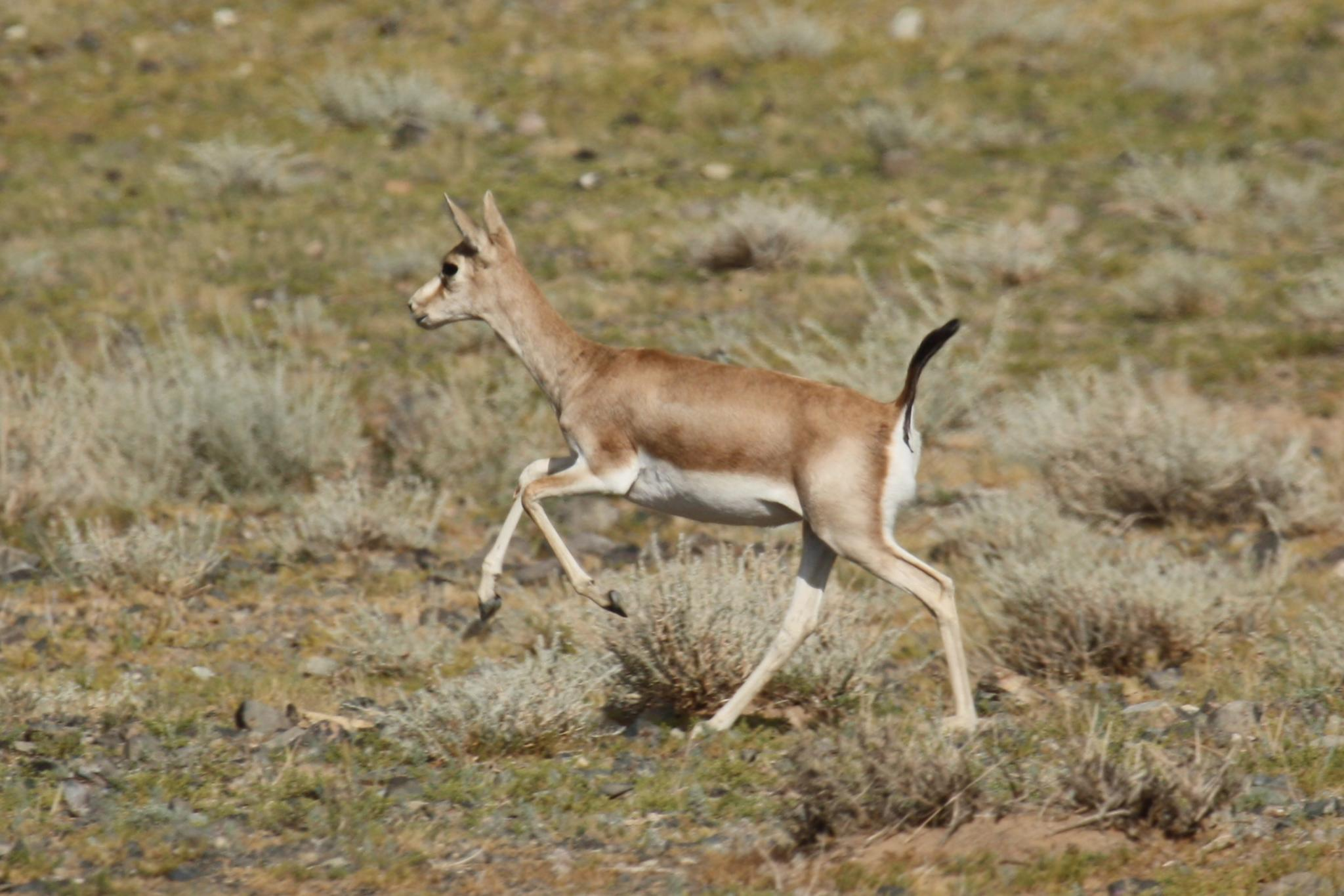 Black-tailed, Goitered or Persian Gazelle. Photographed in Gobi Desert, southern Mongolia.